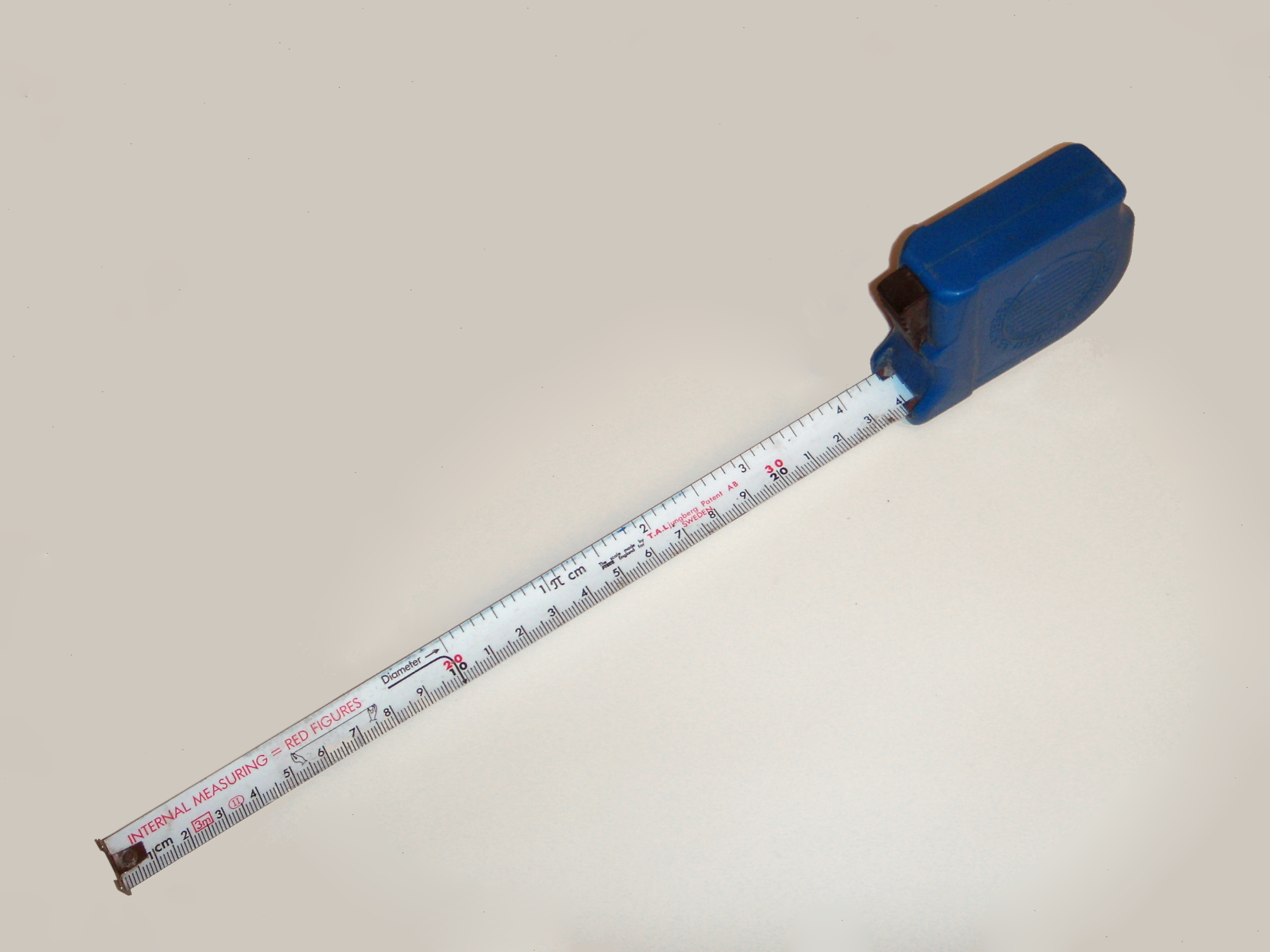 tape measure from Sweden.